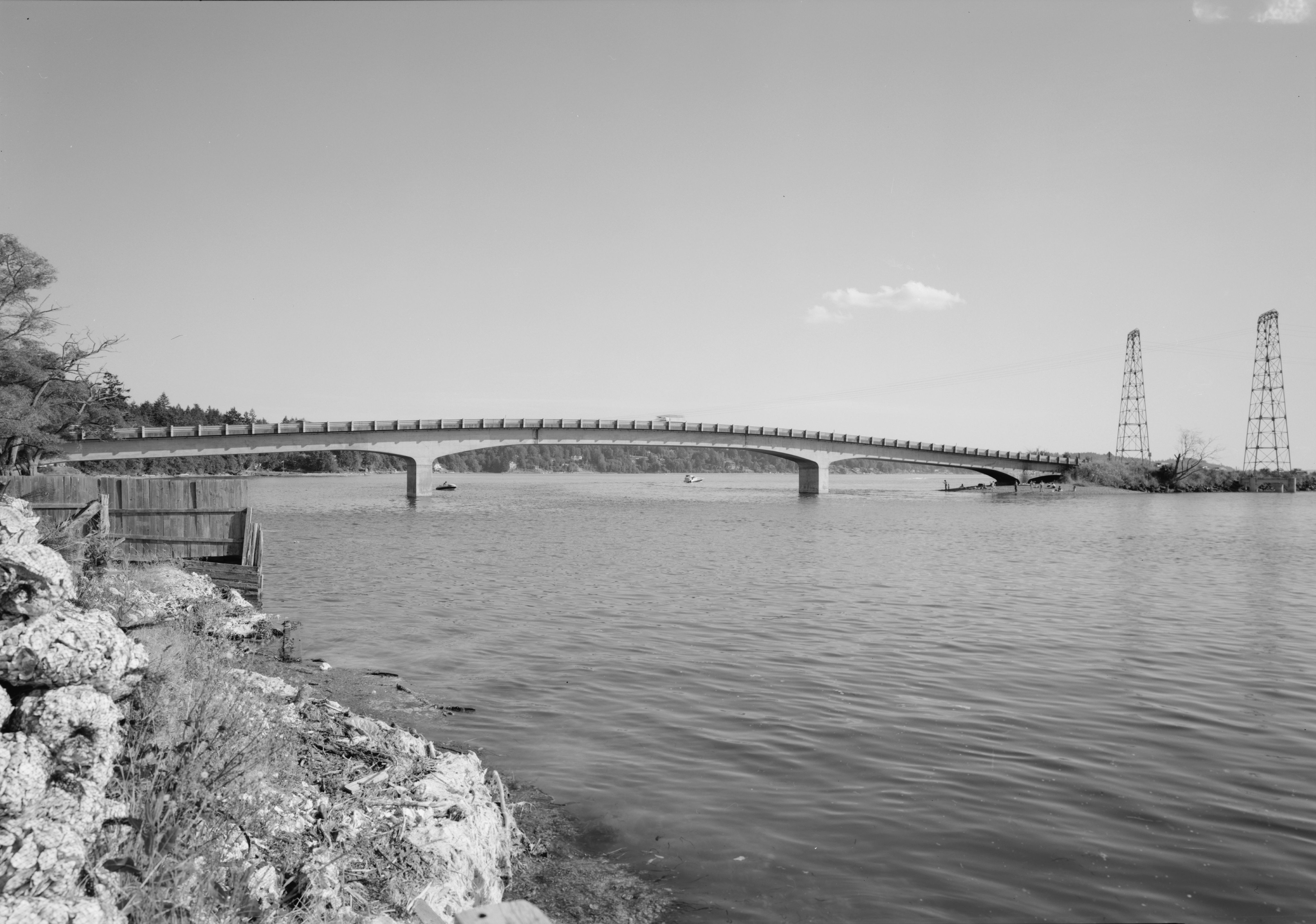 The Purdy Bridge, in Purdy, Pierce County, Washington. The bridge spans the strait between Henderson Bay & Burley Lagoon and is listed on the National Register of Historic Places.